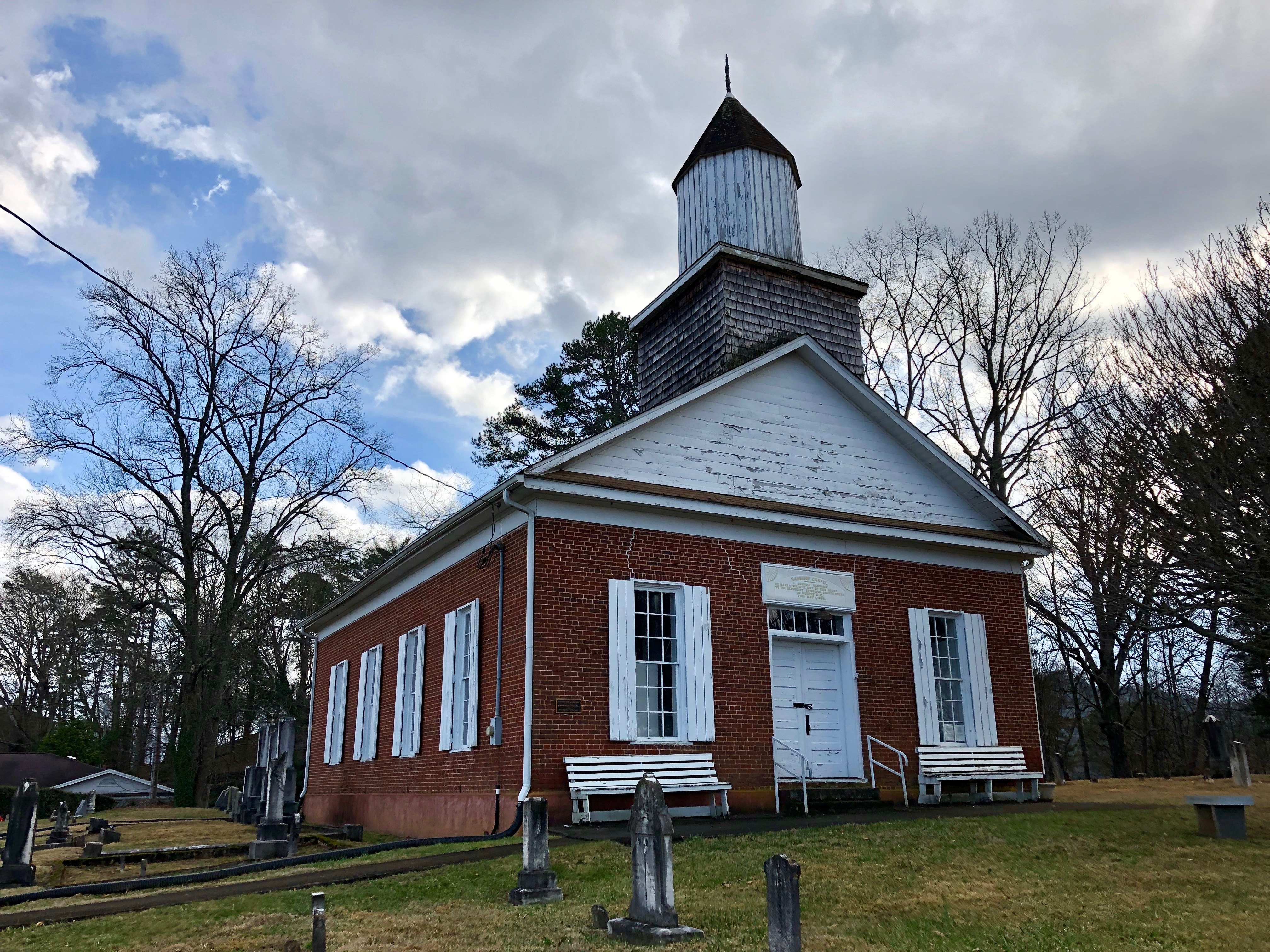 Harshaw Chapel, Murphy, NC